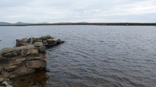 Pier, Loch Scadabhagh A small breakwater to provide shelter for the angling boats.